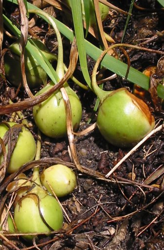 Mandrake fruits in Paris Jardin des Plantes.